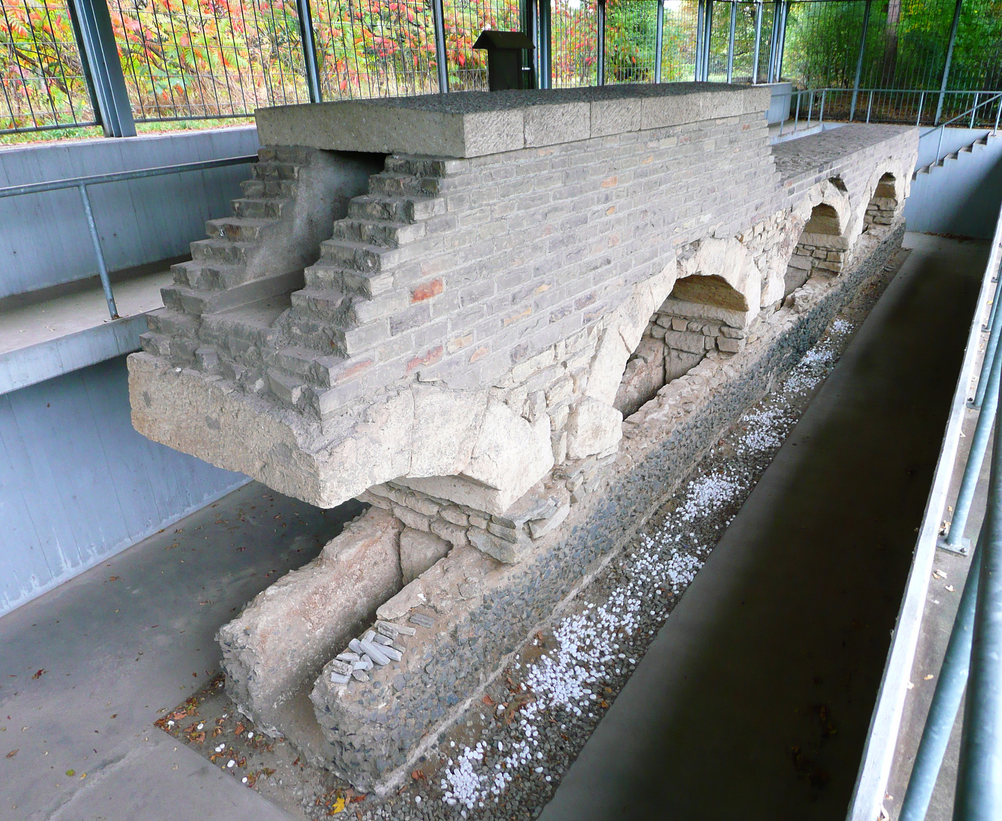 Section of the Roman Eifel Aqueduct to Cologne at nearby Hürth-Hermülheim. Piers and segmental arches of the aqueduct, erected after 50 AD, rest on the older Vorgebirgsleitung (made of dark blue basalt concrete). The covered conduit above the apex of the arches was reconstructed for illustrative reasons.